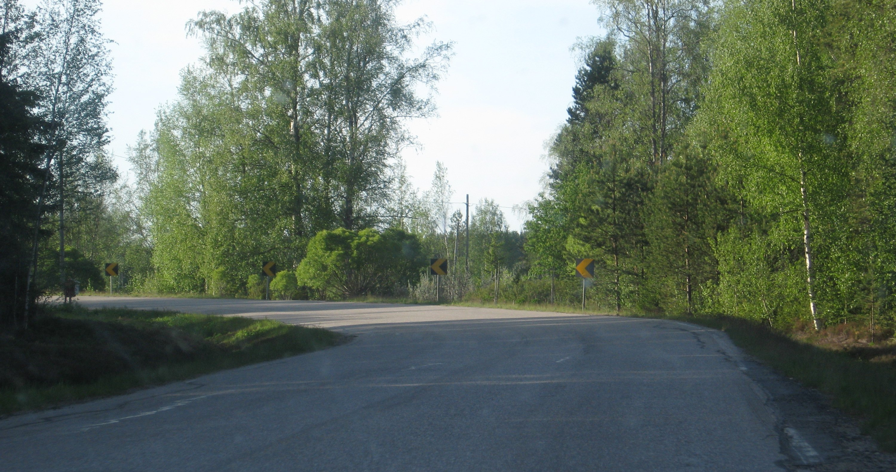 National road 44 in Hyyppä, Kauhajoki, Finland